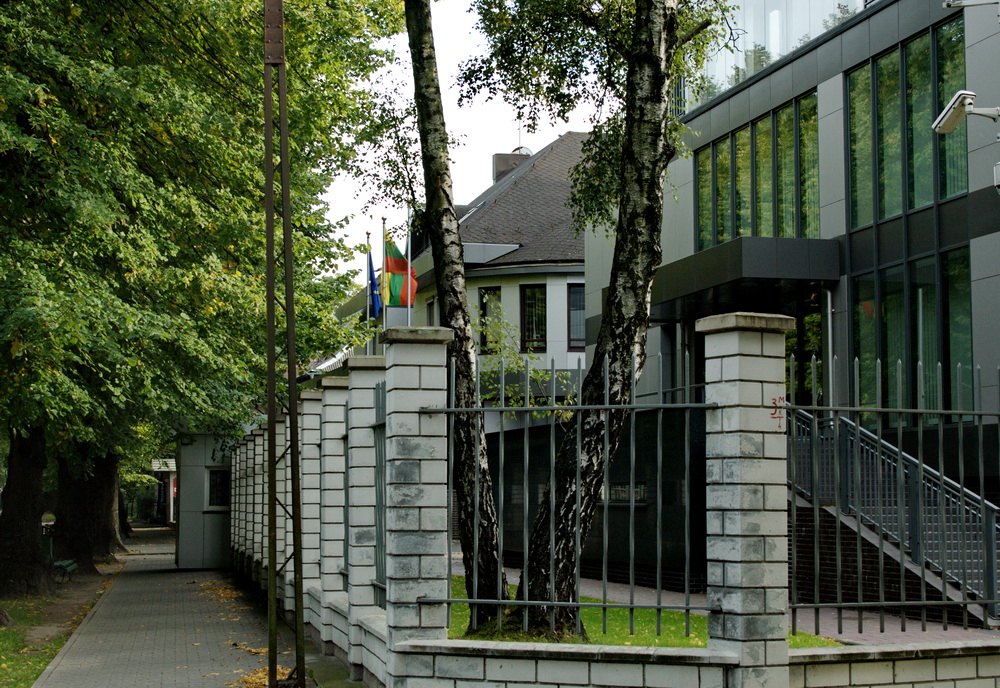 Consulate-General of Lithuania in Kaliningrad